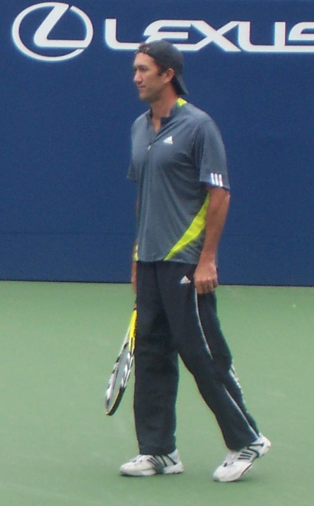 Darren Cahill Coaching at the US Open 2007